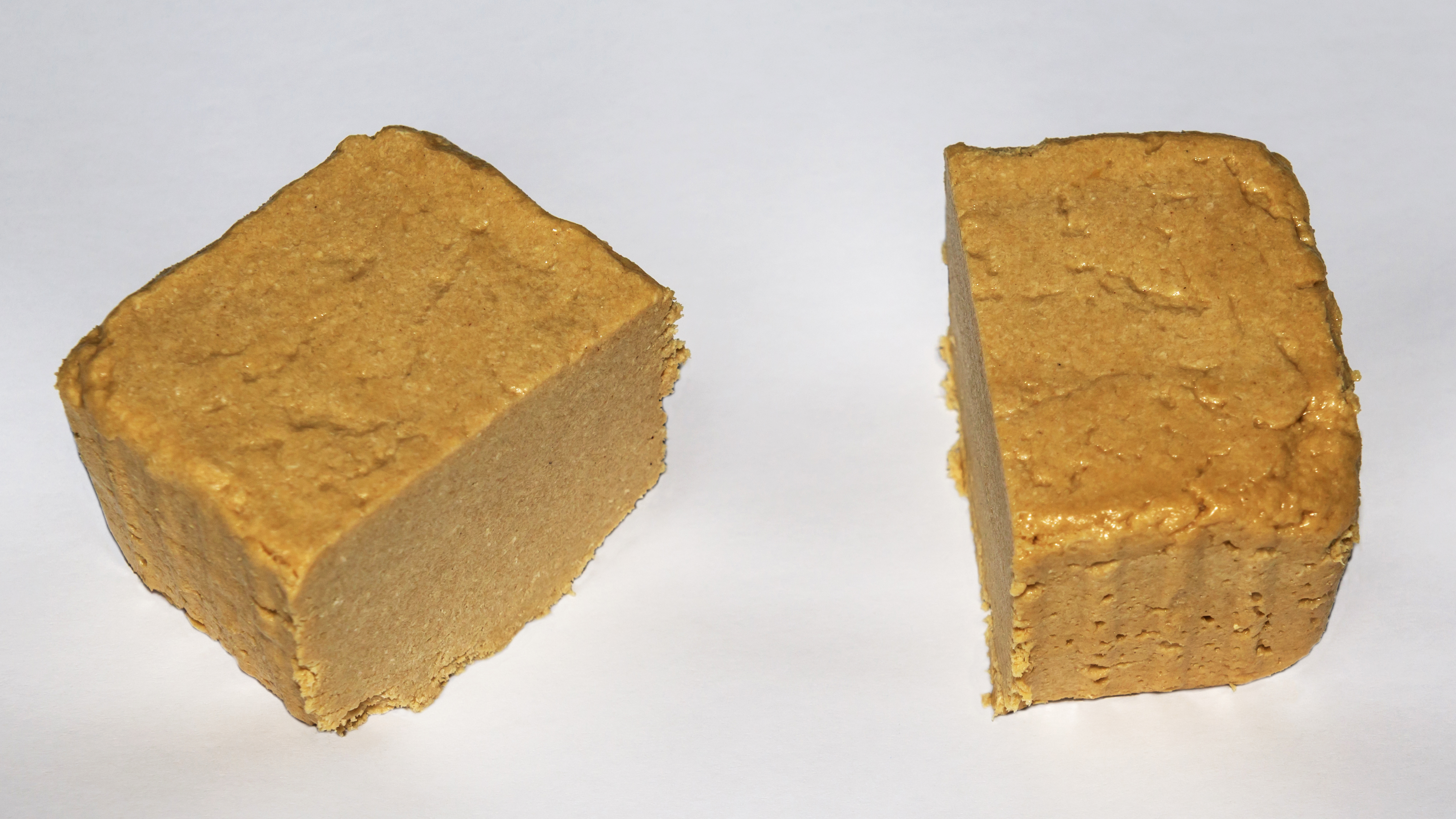 Turkish sesame halva, two pieces